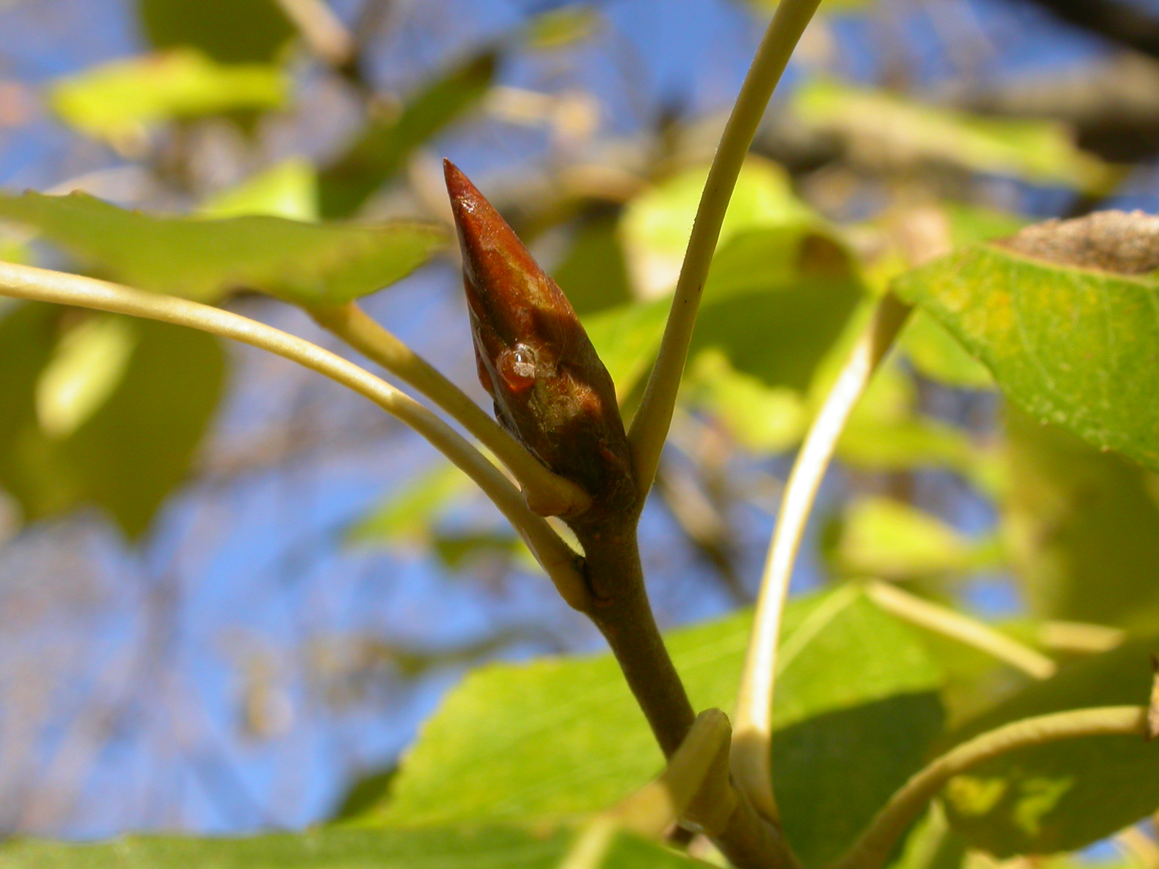 The buds of Populus balsamifera are large and mostly terminate a branch.